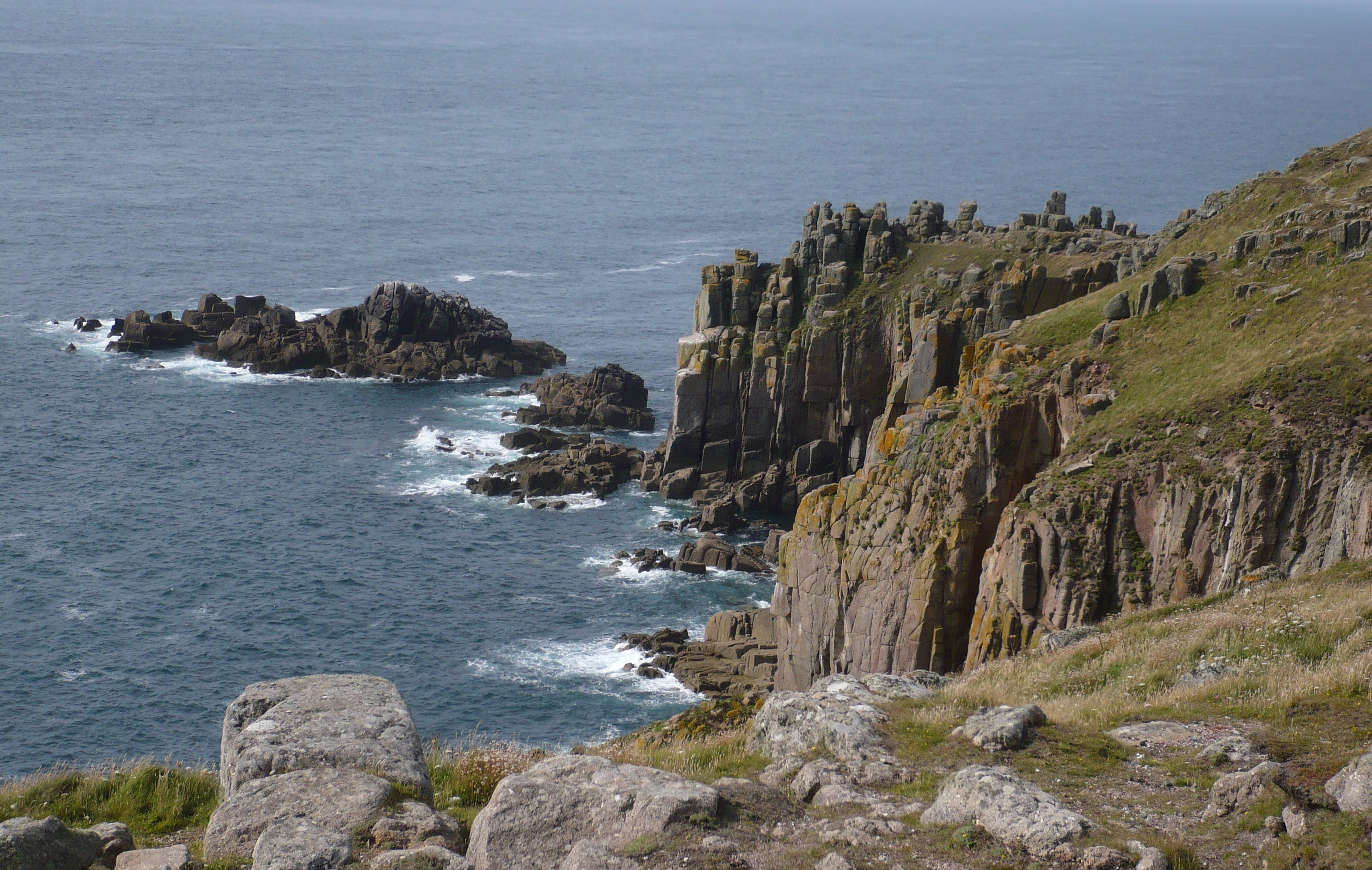 The granite coast at Land's End, the most westerly point of England, except for the Isles of Scilly (westernmost «mainland» point)